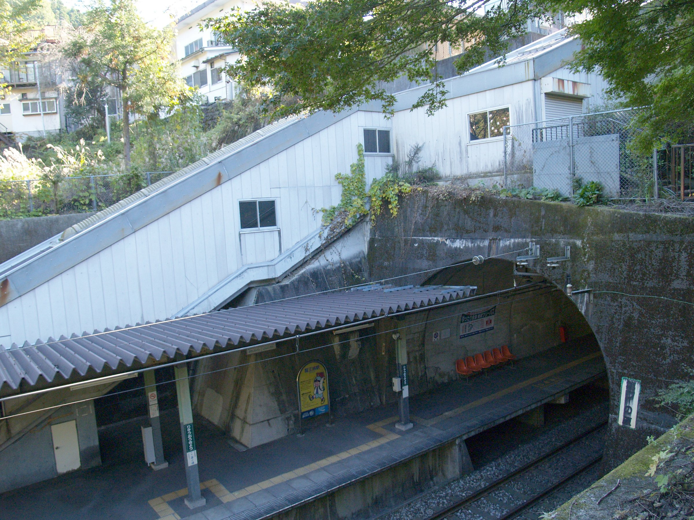 Platform of Ryuokyo Station, Tochigi Pref., Japan